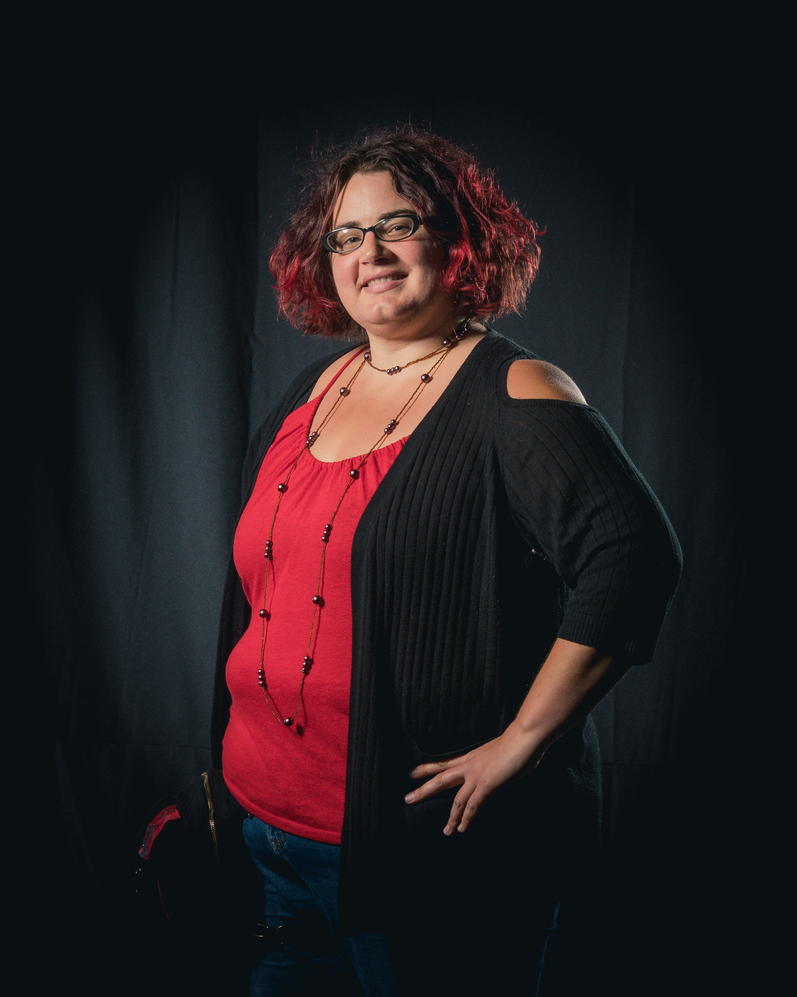 Portrait photoshoot at Worldcon 75, Helsini, before the Hugo Awards: Kameron Hurley.